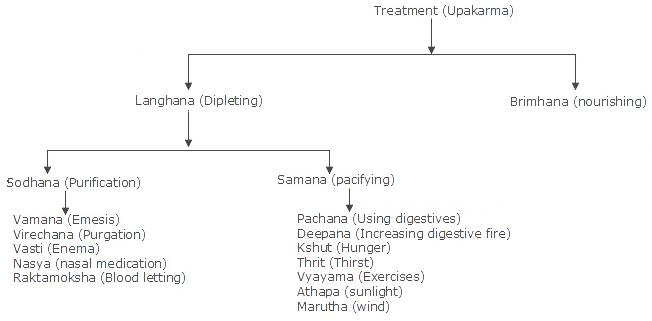 Ayurvedic Treatment Procedures